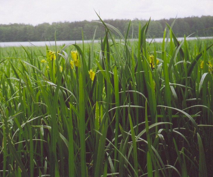 Lake Łaśmiady (Poland) - Iridetum pseudoacori